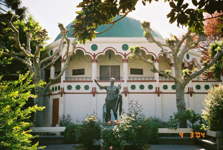 View of the Planetarium in the AMORC Rosicrucian Park, San Jose, California. The statue is of Caesar Augustus, a replica of the work sometimes referred to as Augustus of Prima Porta by Art Historians.